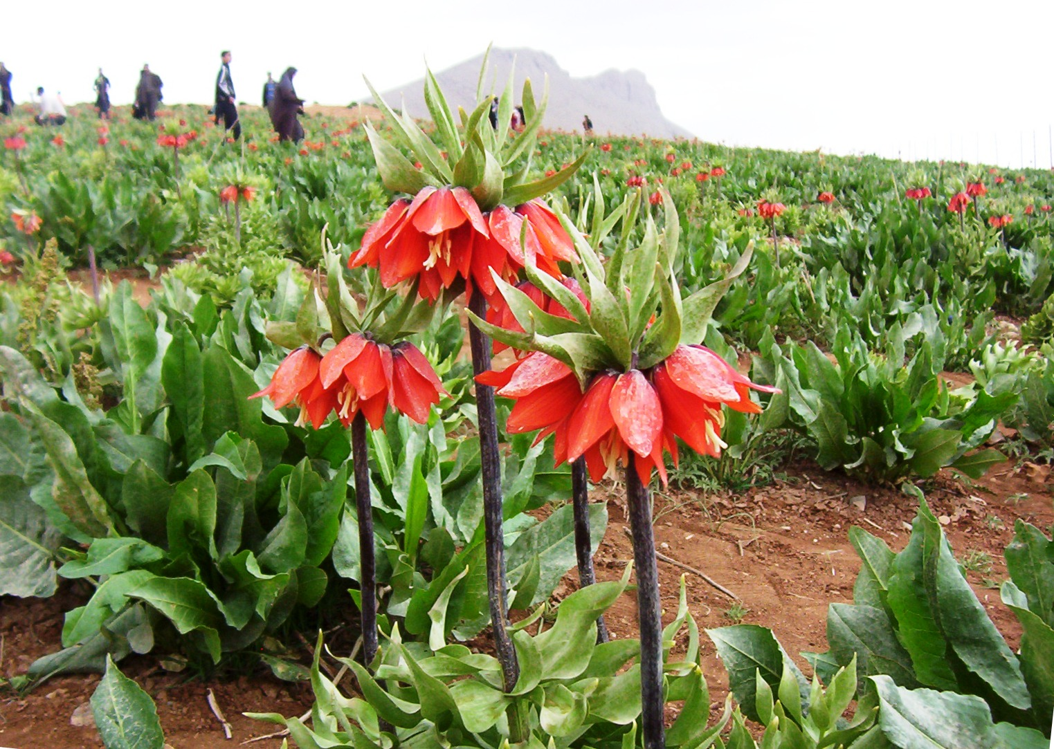 "Top-Down Tulip" - Fritillaria imperialis - in Chahar Mahal - Chaharmahal-o-Bakhtiari province - Iran.